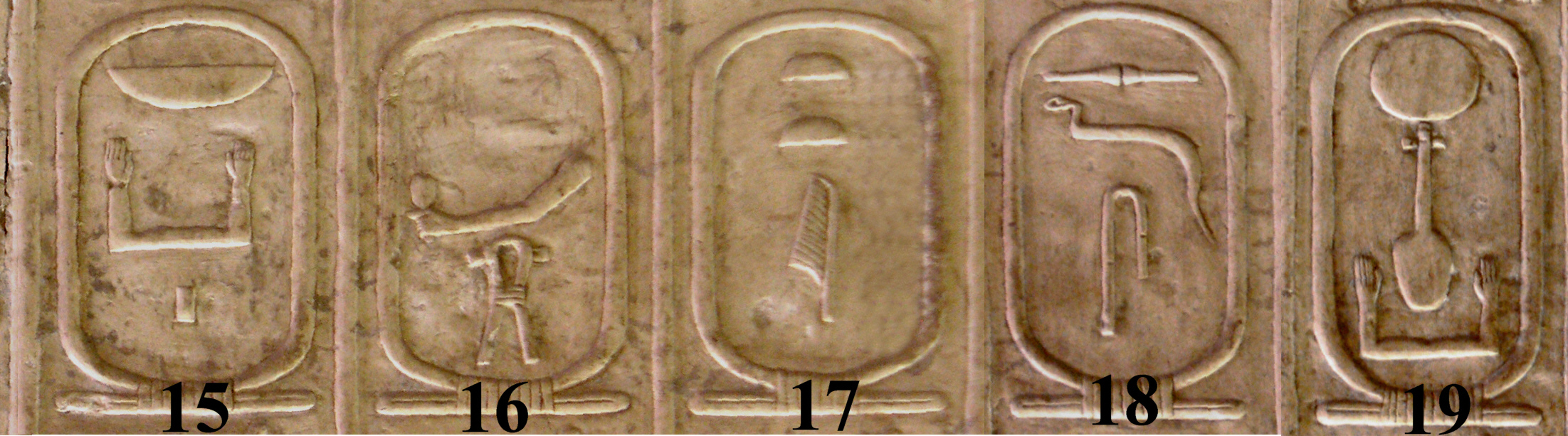 Royal cartouches 15 through 19